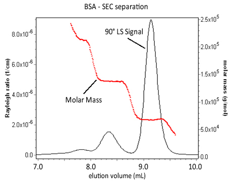 This graph shows a separated BSA sample, a 90 degree light scattering trace and molar mass distribution